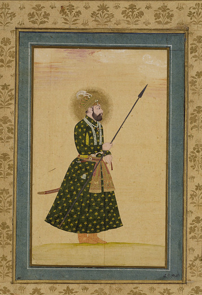 Jahandar Shah was the 8th Mughal Emperor.